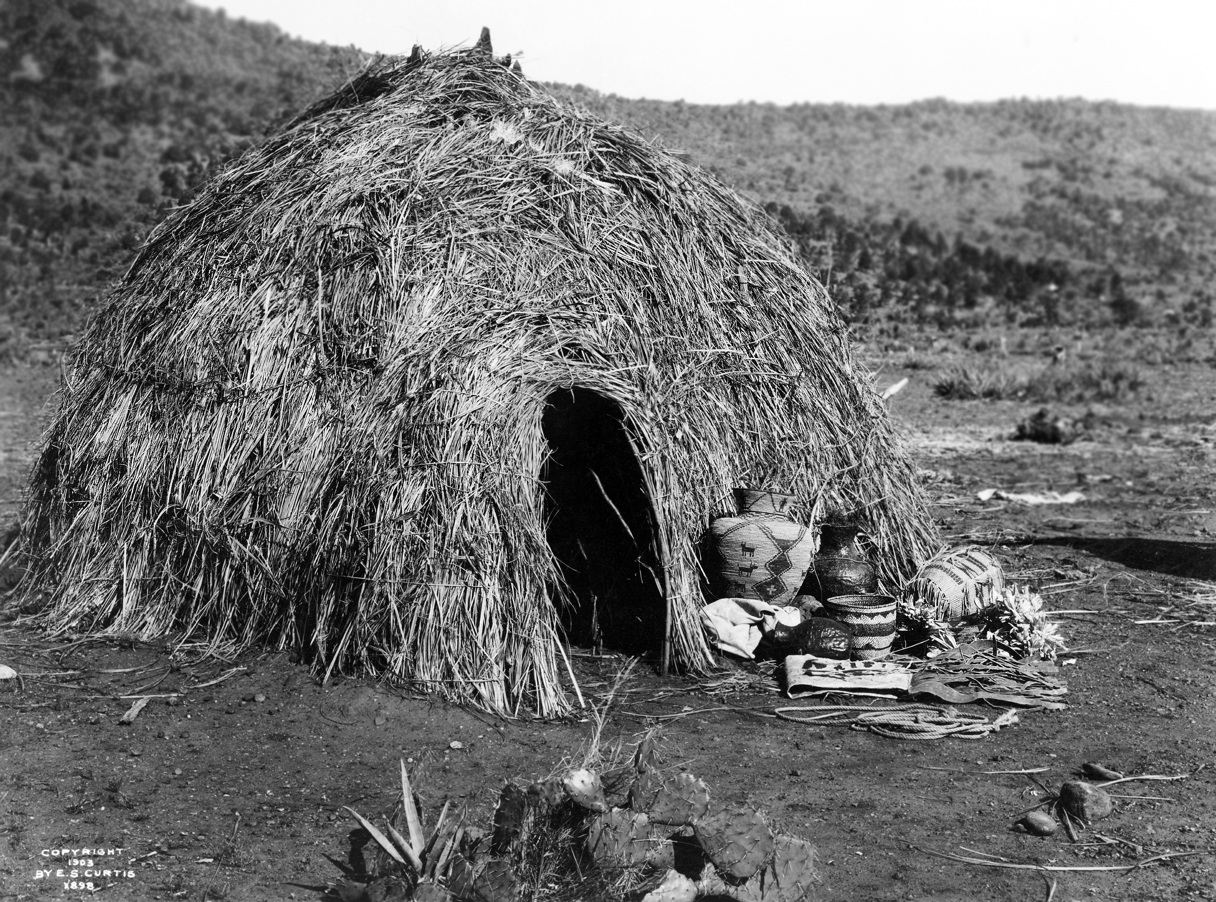 TITLE: Apache Wickiup CALL NUMBER: LOT 12310-A [item] [P&P] Check for an online group record (may link to related items) REPRODUCTION NUMBER: LC-USZ62-101173 (b&w film copy neg.) SUMMARY: Rounded structure made out of grass, with baskets in front. MEDIUM: 1 photographic print. CREATED/PUBLISHED: c1903. CREATOR: NOTES: H37672 U.S. Copyright Office. Edward S. Curtis Collection. Curtis no. 898. SUBJECTS: Indians of North America--Dwellings--Southwest, New--1900-1910. Apache Indians--Dwellings--1900-1910. Wickiups--Southwest, New--1900-1910. FORMAT: Photographic prints 1900-1910. CARD #: 90710167 Vigvamo Вигвам